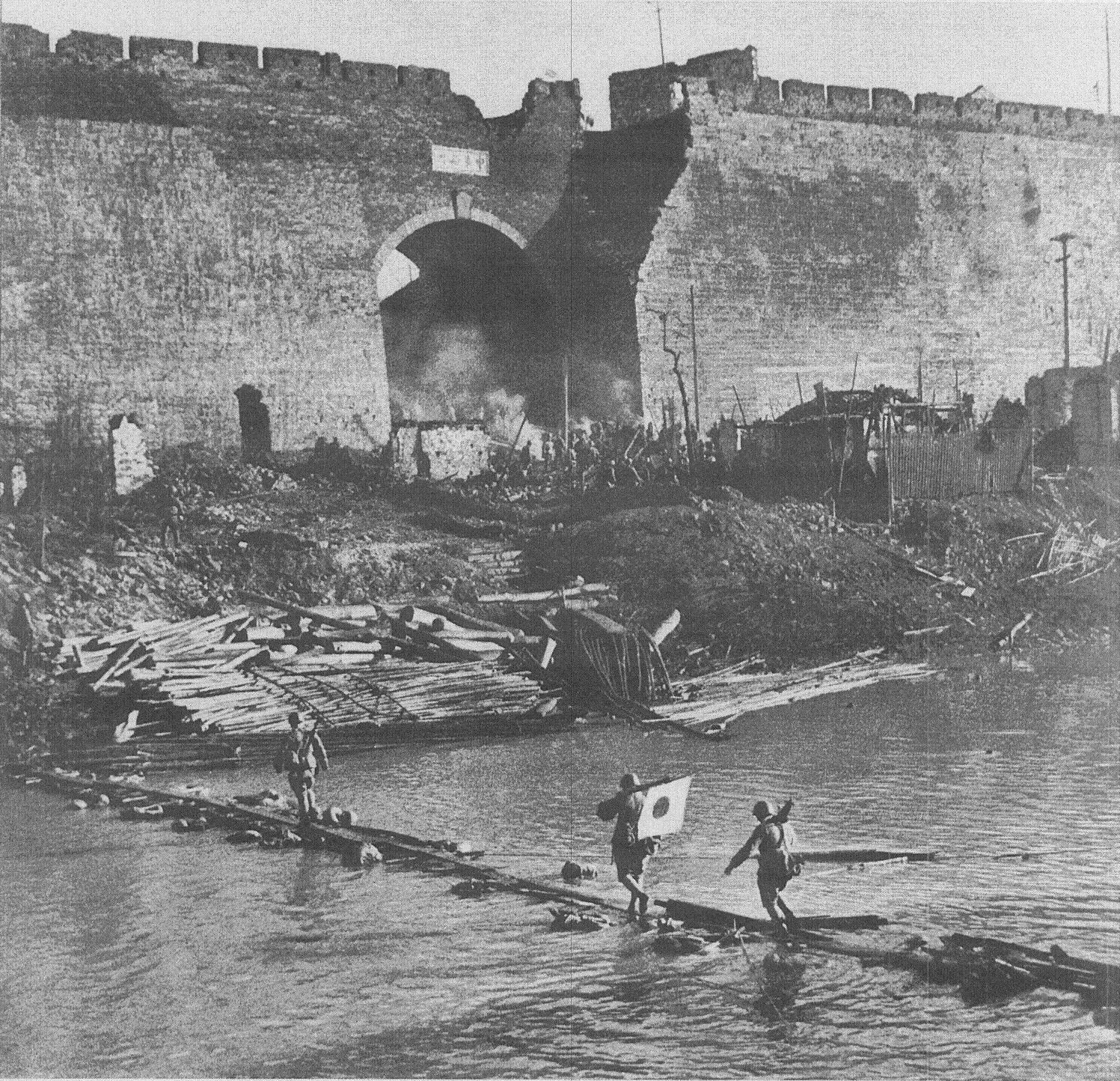 Chiba corps, who crosses the river in front of the Nanking castle wall, is going to enter the castle from the Gate of China.(December 13, 1937)